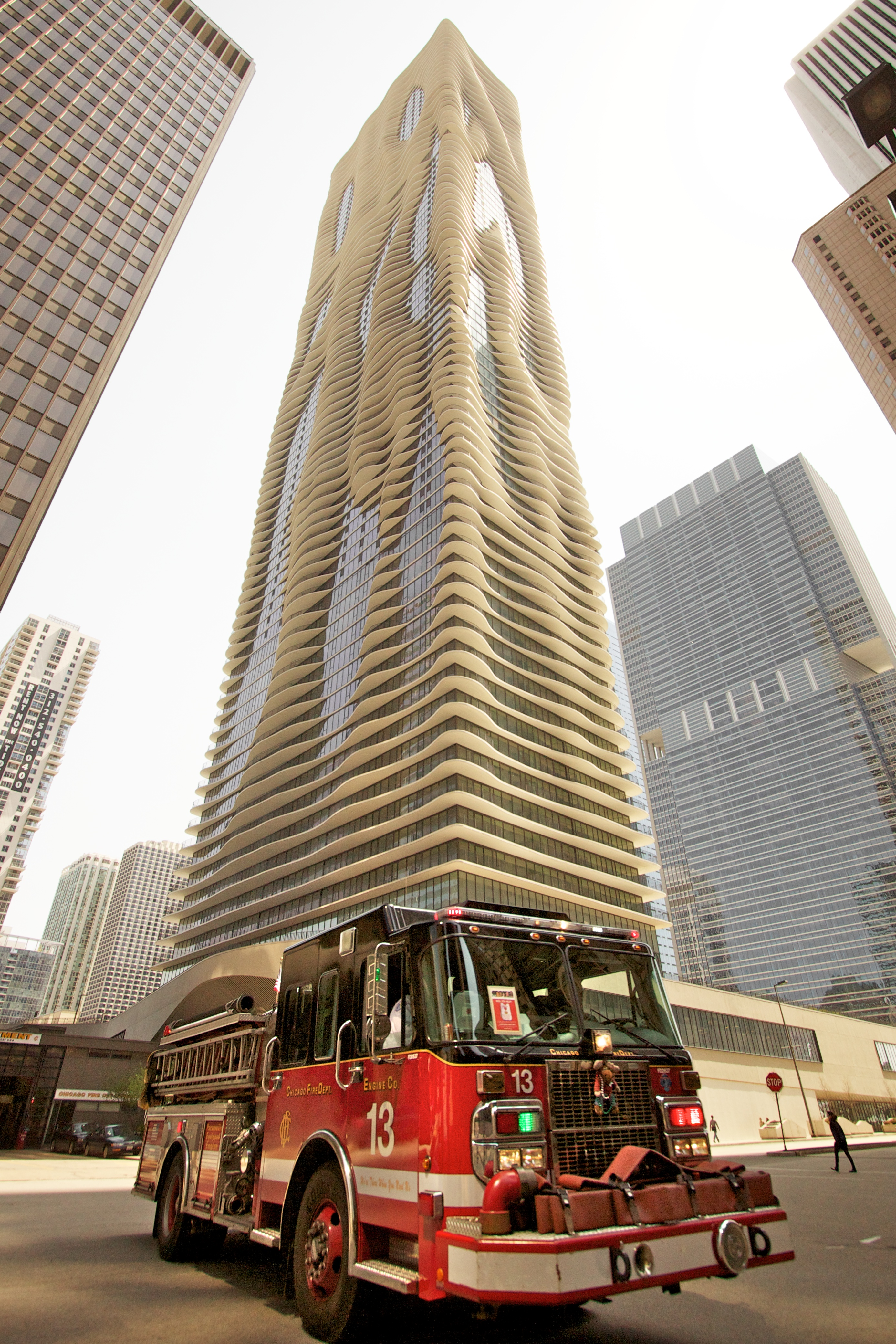 Aqua (skyscraper) in Chicago